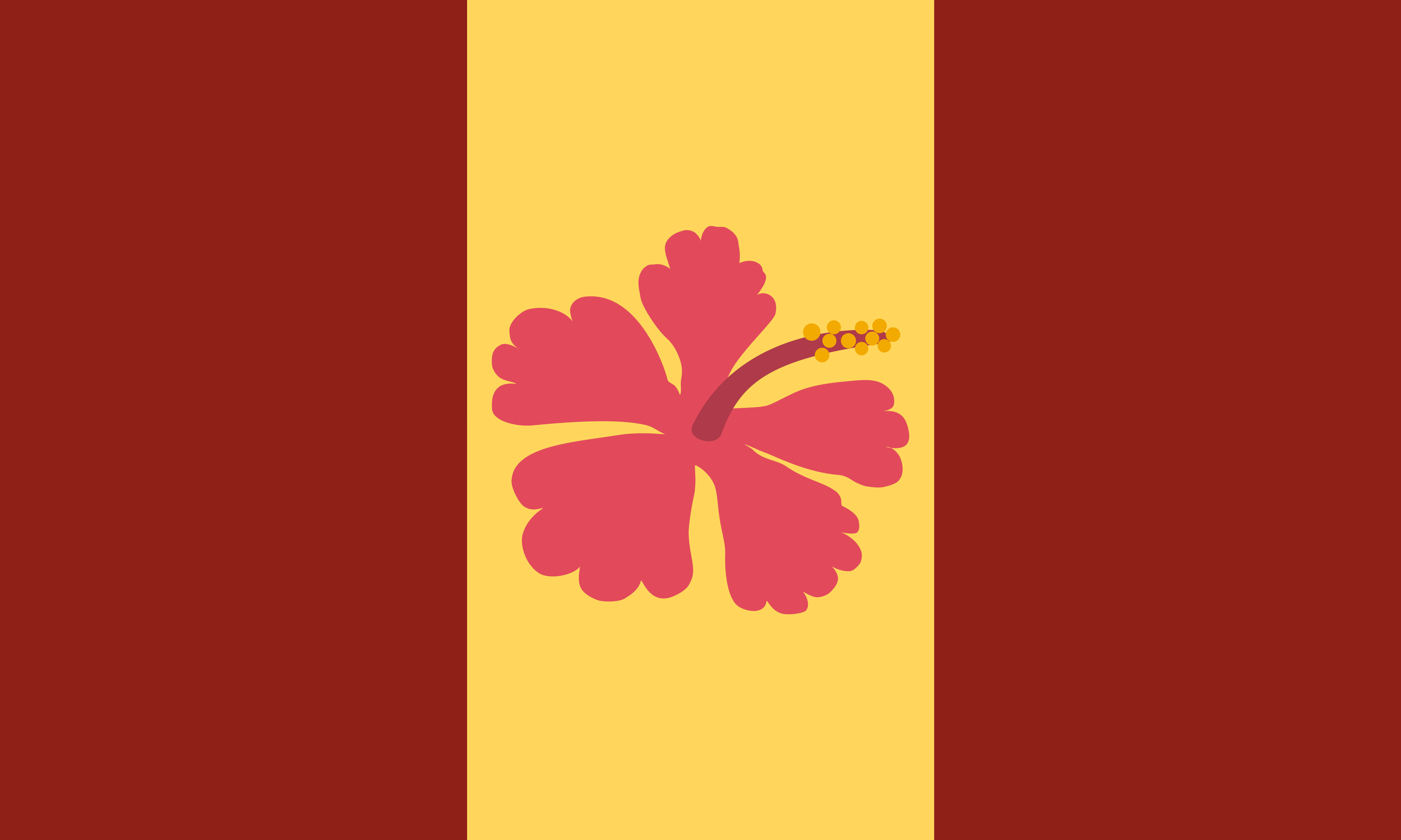 The first Faʻafafine Pride-Flag as desiğned by its original author. The flag was created to represent the Faʻafafine gender in the culture of the Samoas, the flag being created as such because (sic) "we decided to just base it off of the S.O.F.I.A.’s logo. The three bars, dark red then yellow then dark red, and the hibiscus in the middle, all from the logo! Hibiscus is traditional associated with tropical islands like the Samoas, and pink ones in particular with femininity and fa'afafines, so it is fitting.".